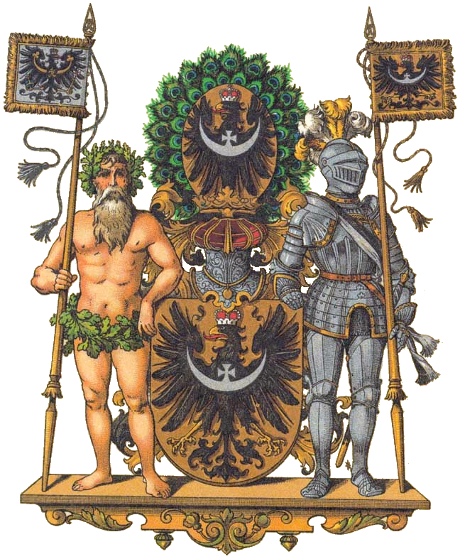 Coat of arms of the Prussian province of Silesia